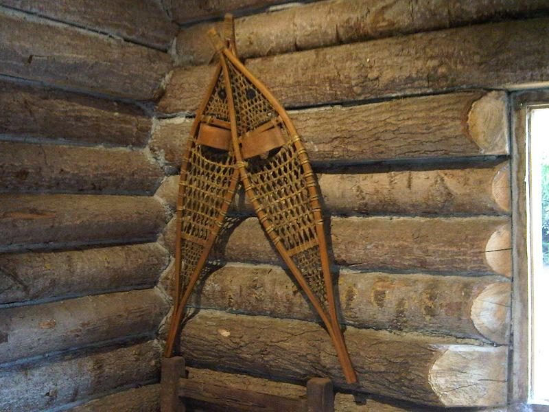 Snowshoes